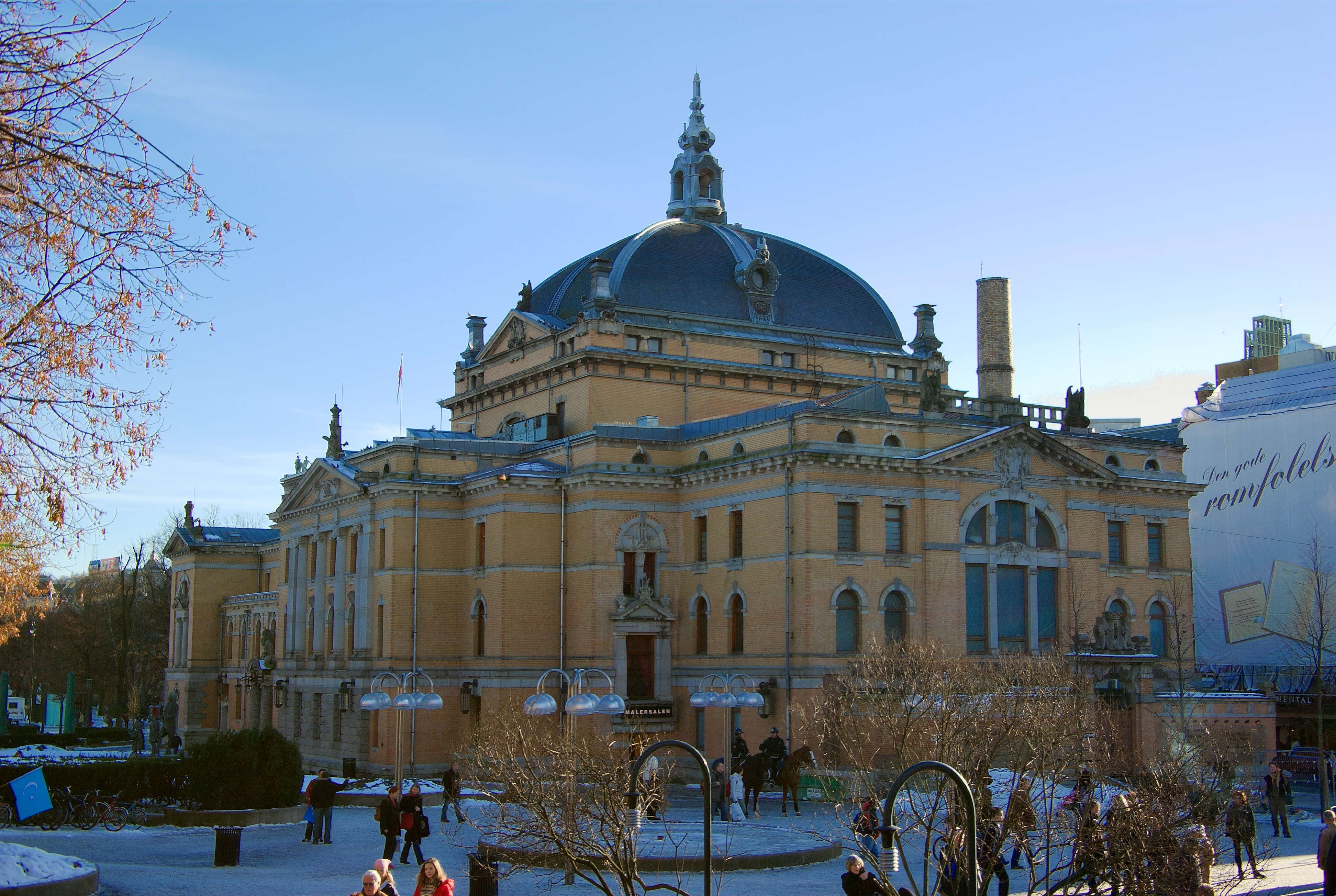 National Theatre in Oslo, Norway.